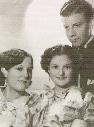 Trío Mores: From left to right: Margarita (Margot) Mores, Myrna Mores, Mariano Mores. Tango. Argentina.